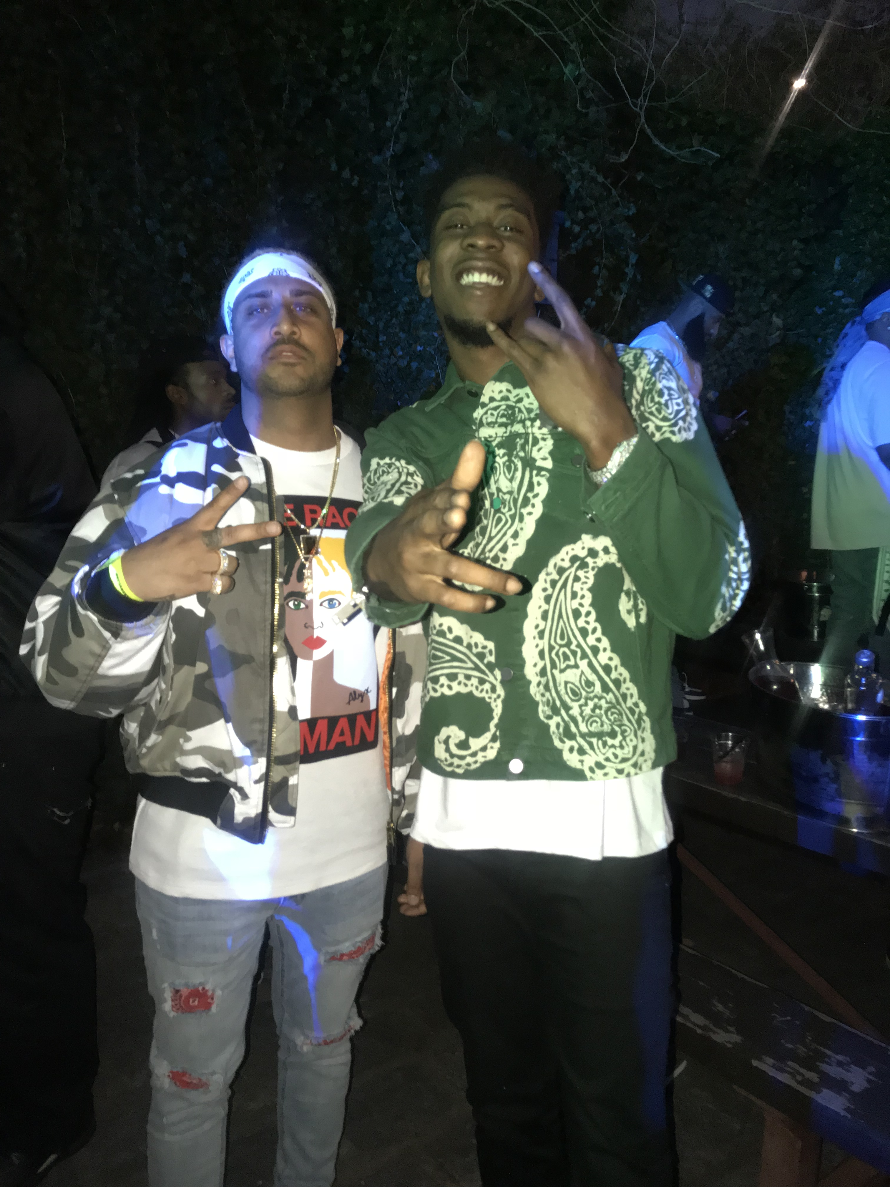 RAJA AND RAPPER DESIIGNER